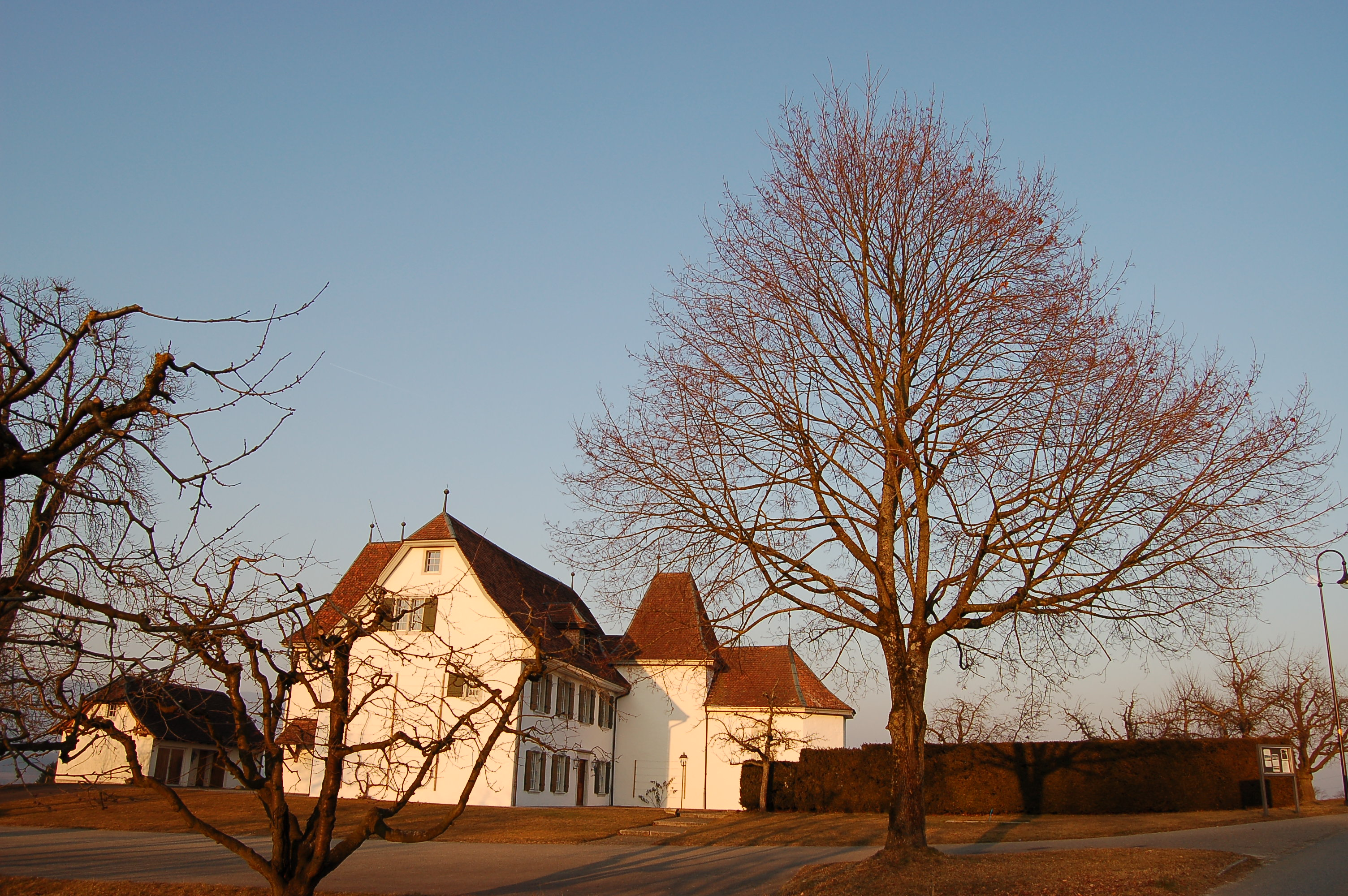 castel Bleichenberg